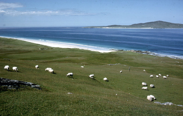 Sheeps grazing on Beinn Shleibhe at Berneray with Pabbay on the background, Outer Hebrides, Scotland